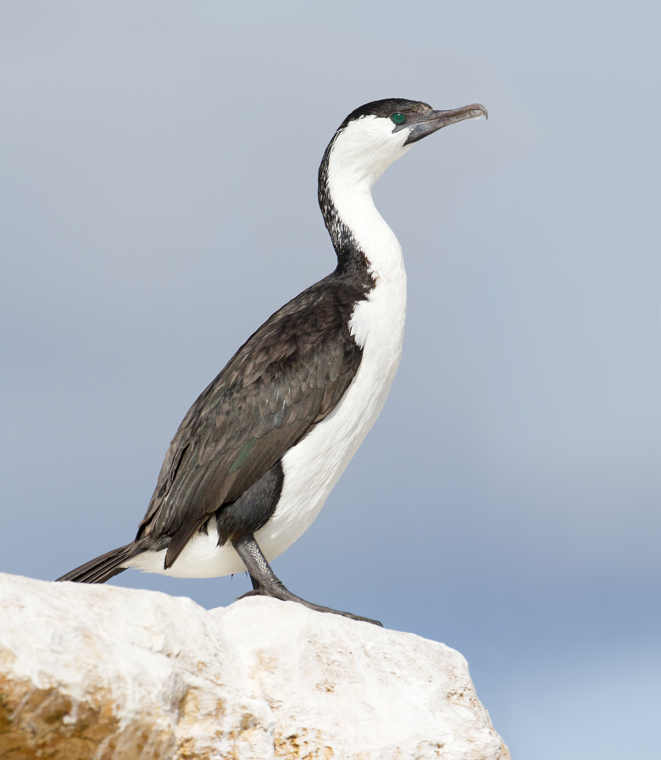 Black-faced Cormorant (Phalacrocorax fuscescens), Derwent River Estuary, Tasmania, Australia